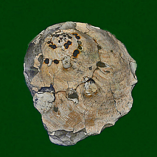 A fossil shell of Xenophora infundibulum, on display at the Museo Civico Craveri di Scienze Naturali - Bra